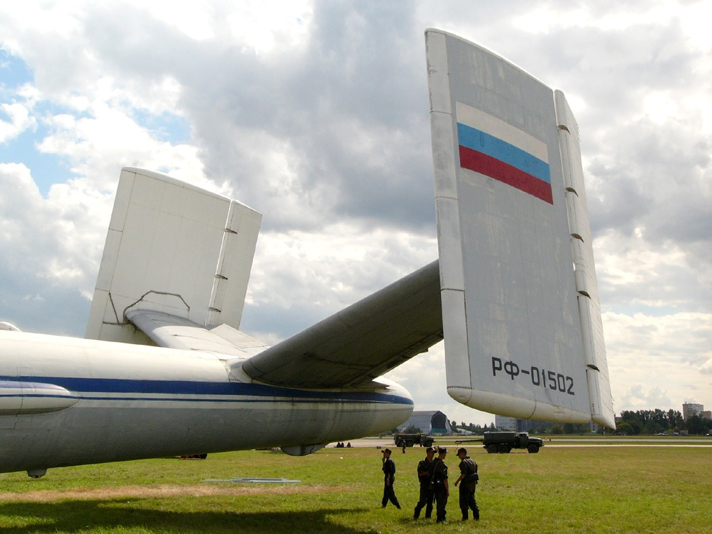 MAKS 2005